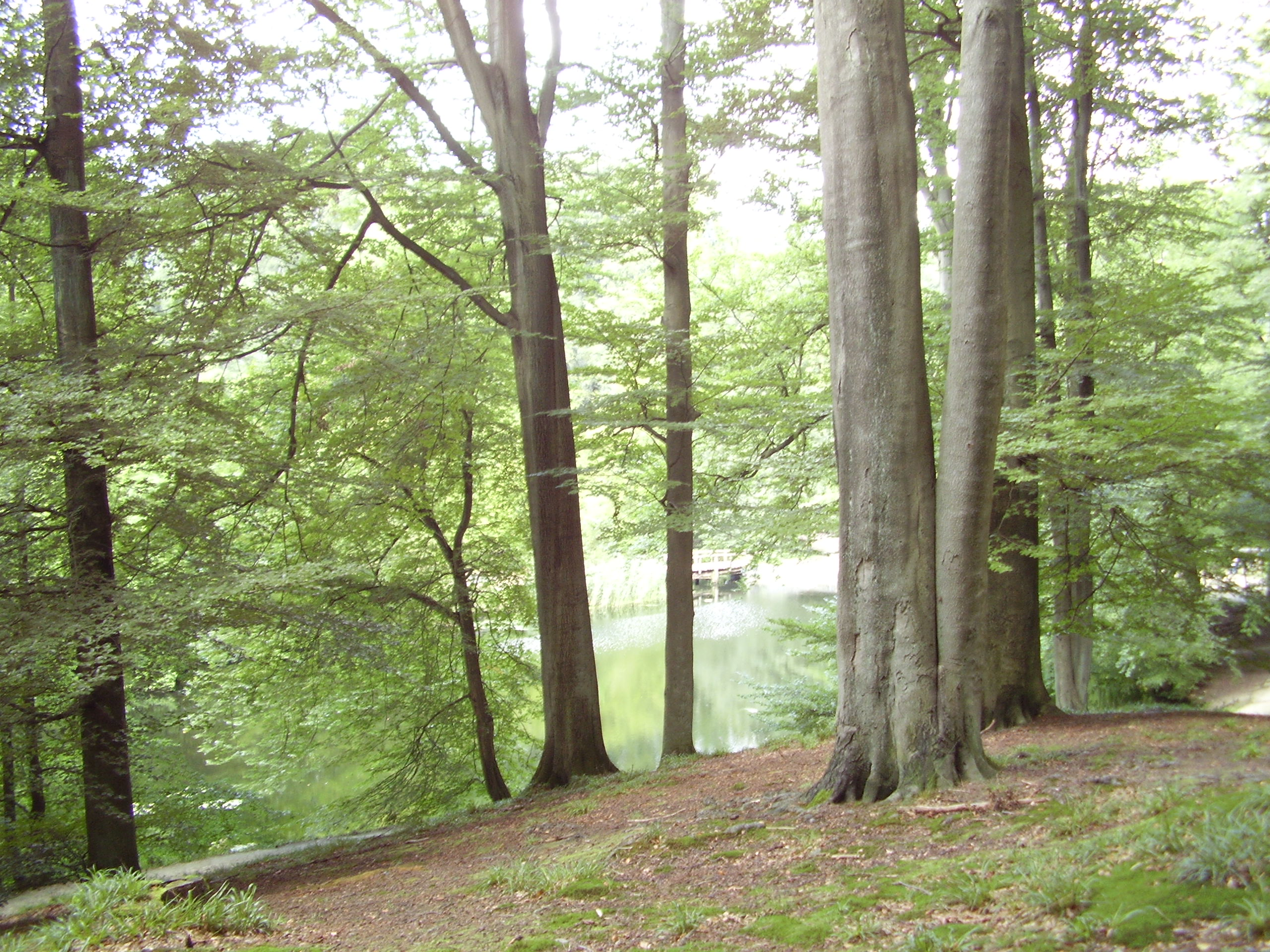 Description: Forêt de Soignes (Bruxelles) Author: User:Ben2 Date of creation: 29 août 2006 Source: Photo personnelle